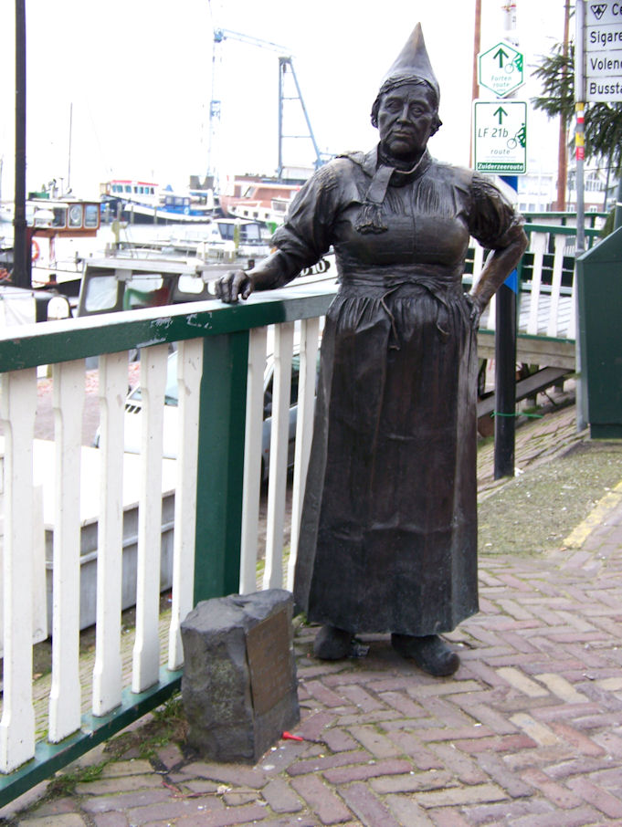 't Ootje (2000) by Jans van Baarsen in Volendam (NL)